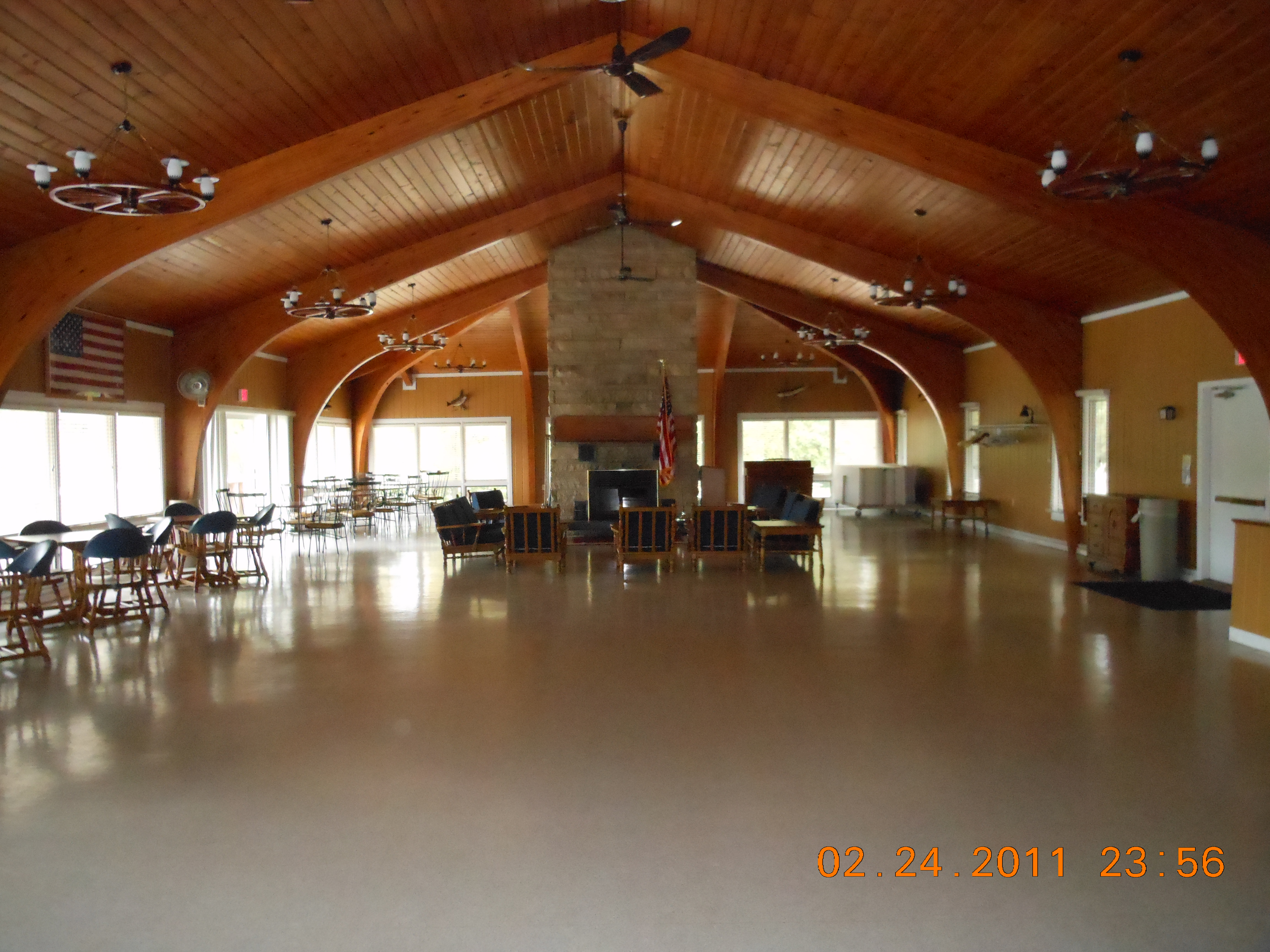 wood-ceiling clubhouse, Lake Wildwood, Roberts Township, Marshall County, IL 61375, USA